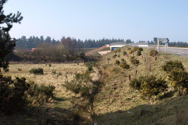 Great Haldon Bridge, Telegraph Hill. Completion of the bridge across the A380, shown under construction in 16563, allowed vehicles to turn on and off the dual carriageway without crossing the other carriageway. The red building on the left is a filling station.